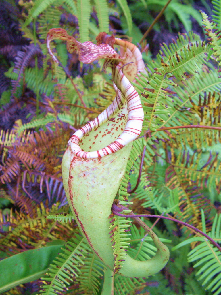 Nepenthes maxima from Sulawesi (400 m altitude)